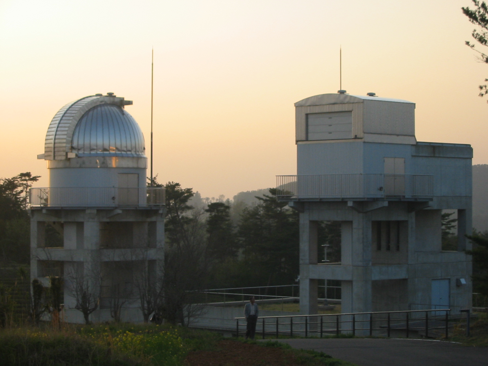 Bisei Spaceguard Center, Ihara-shi, Okayama, Japan. Adjacent to Bisei Astronomical Observatory.